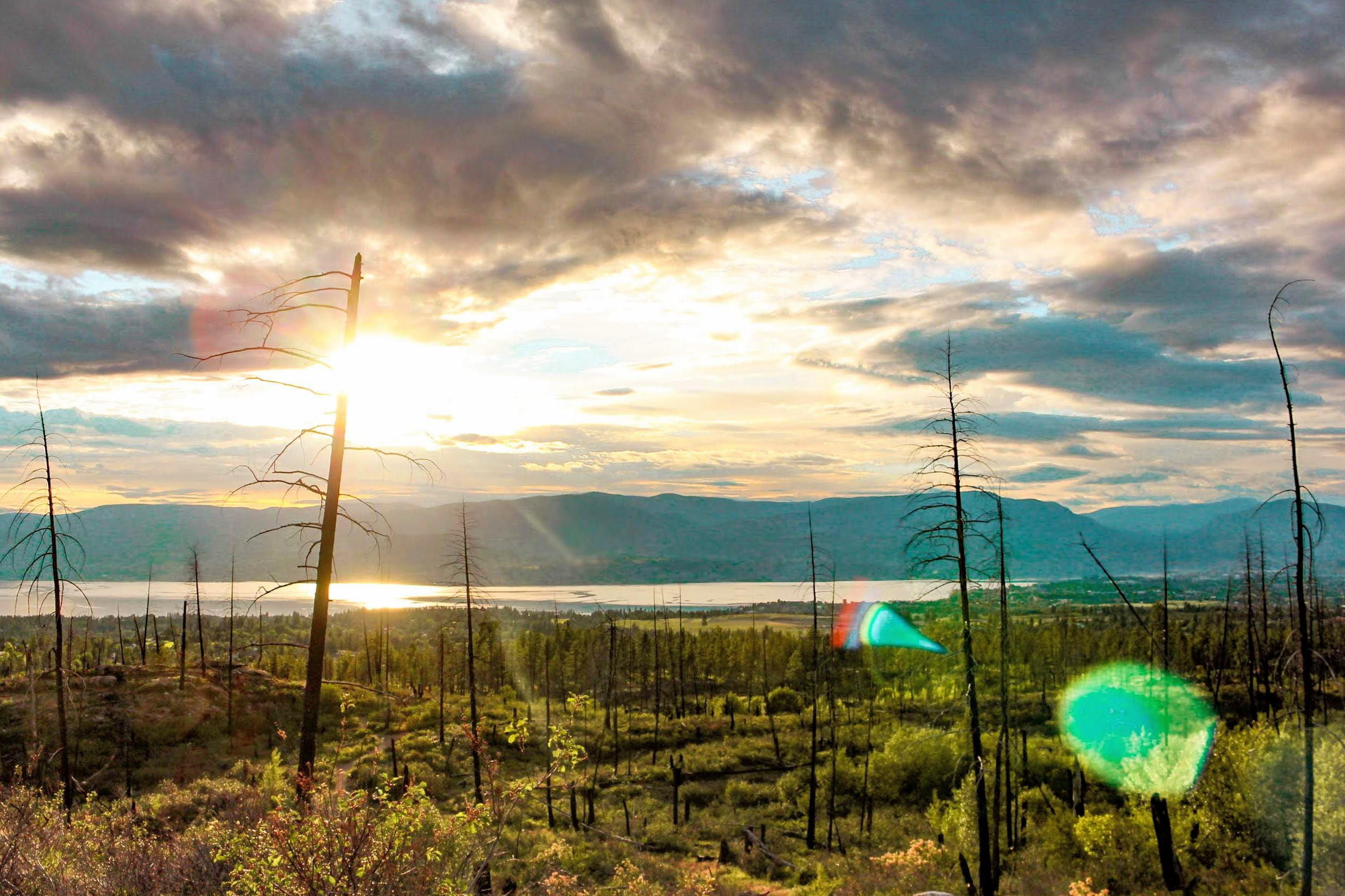 Sun through the clouds on a rainy summer evening This photo was taken in a protected area in Canada, Wikidata item Myra-Bellevue Provincial Park (Q6948085)